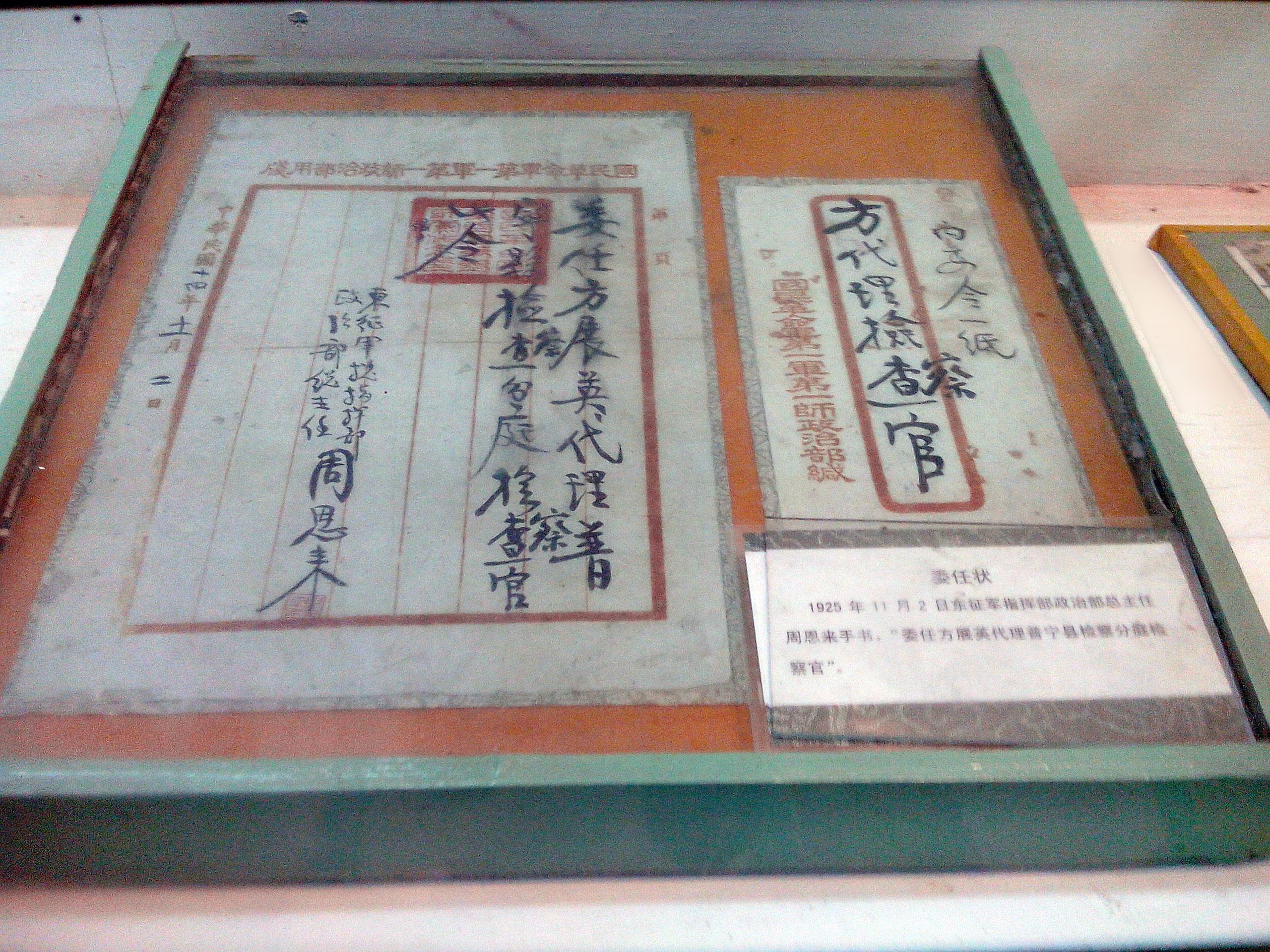 A Commission